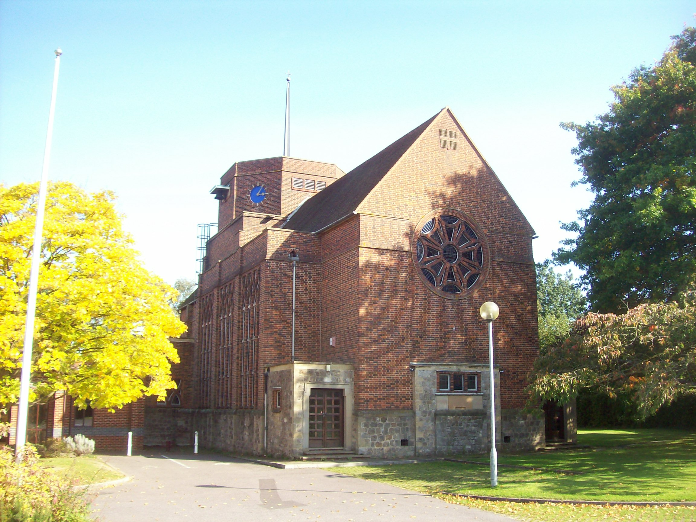 St Andrew's parish church, Paddock Wood, Kent, built in 1957 to replace a church on a different site that was destroyed by enemy action in 1940